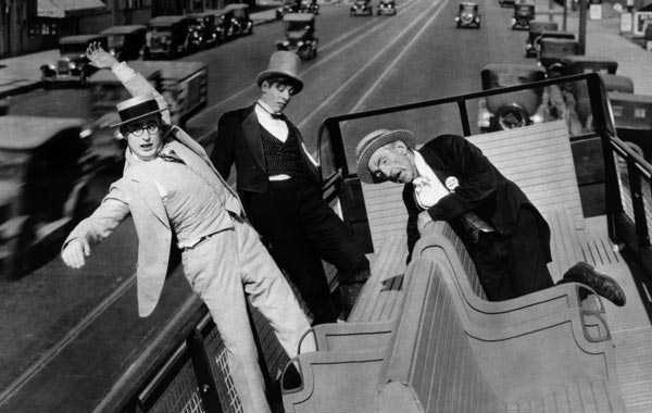 Shot from film featuring Harold Lloyd For Heaven's Sake (1926, dir. Sam Taylor).